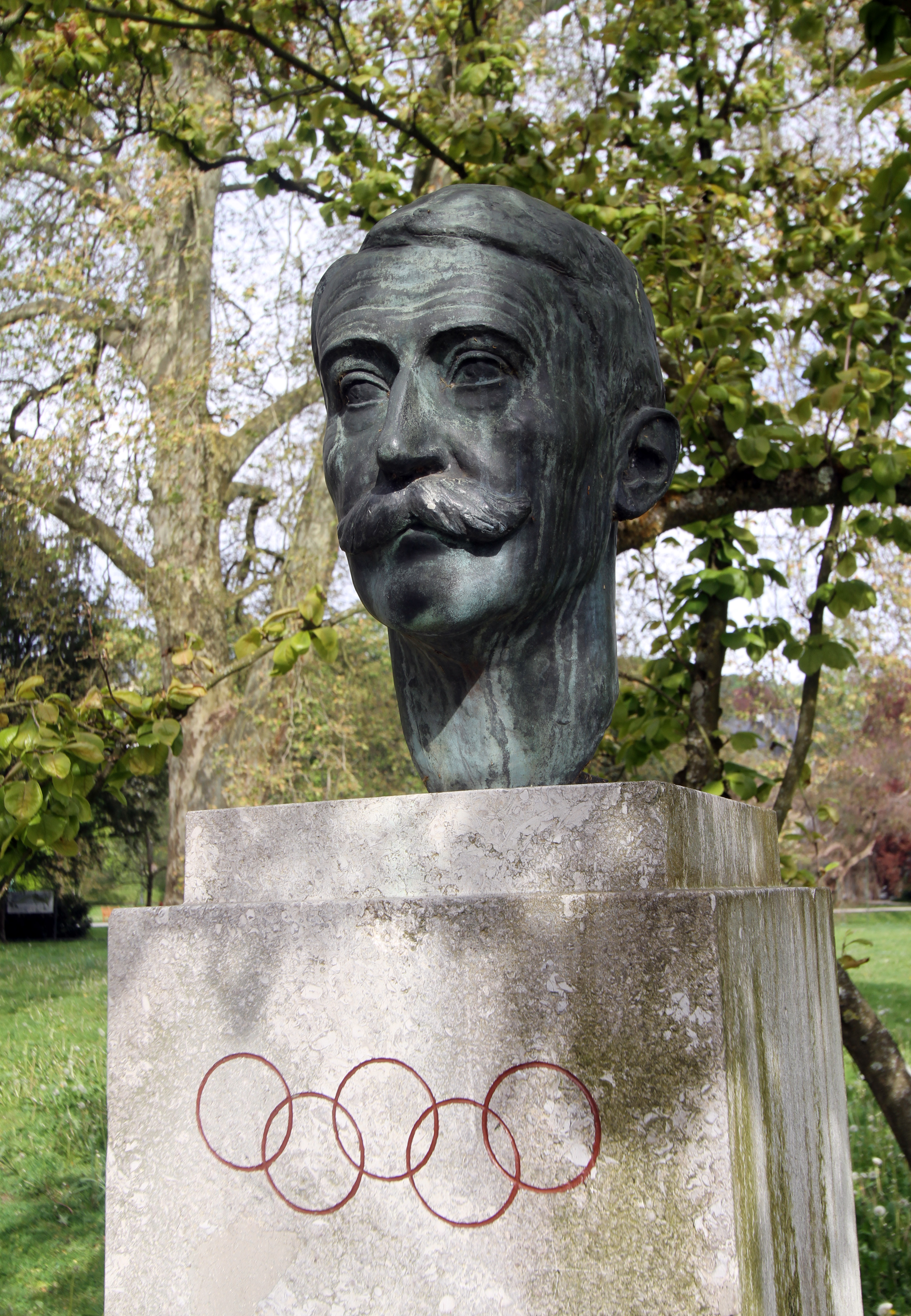 Bust of Pierre de Coubertin (1863-1937), founder of the modern Olympics, at the Augustaplatz in Baden-Baden, built in 1938.